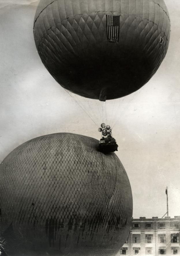 Nationaal Archief/Spaarnestad Photo/Het Leven